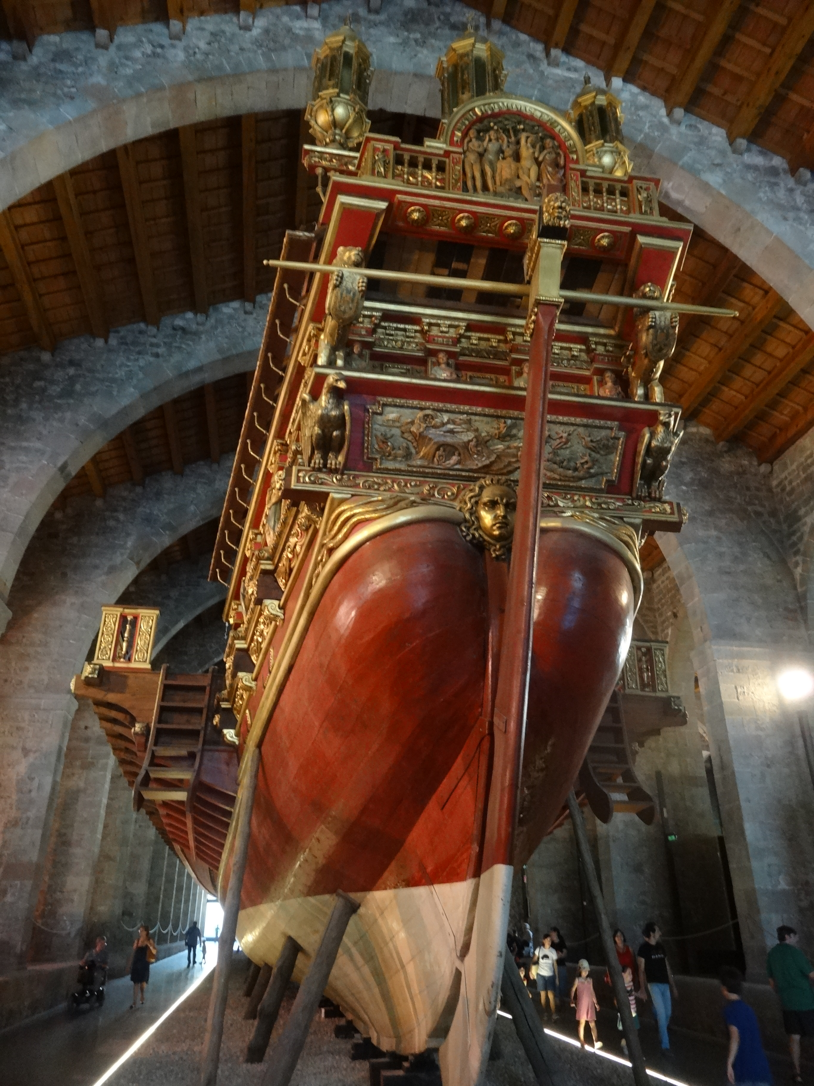 Real (ship, 1971)